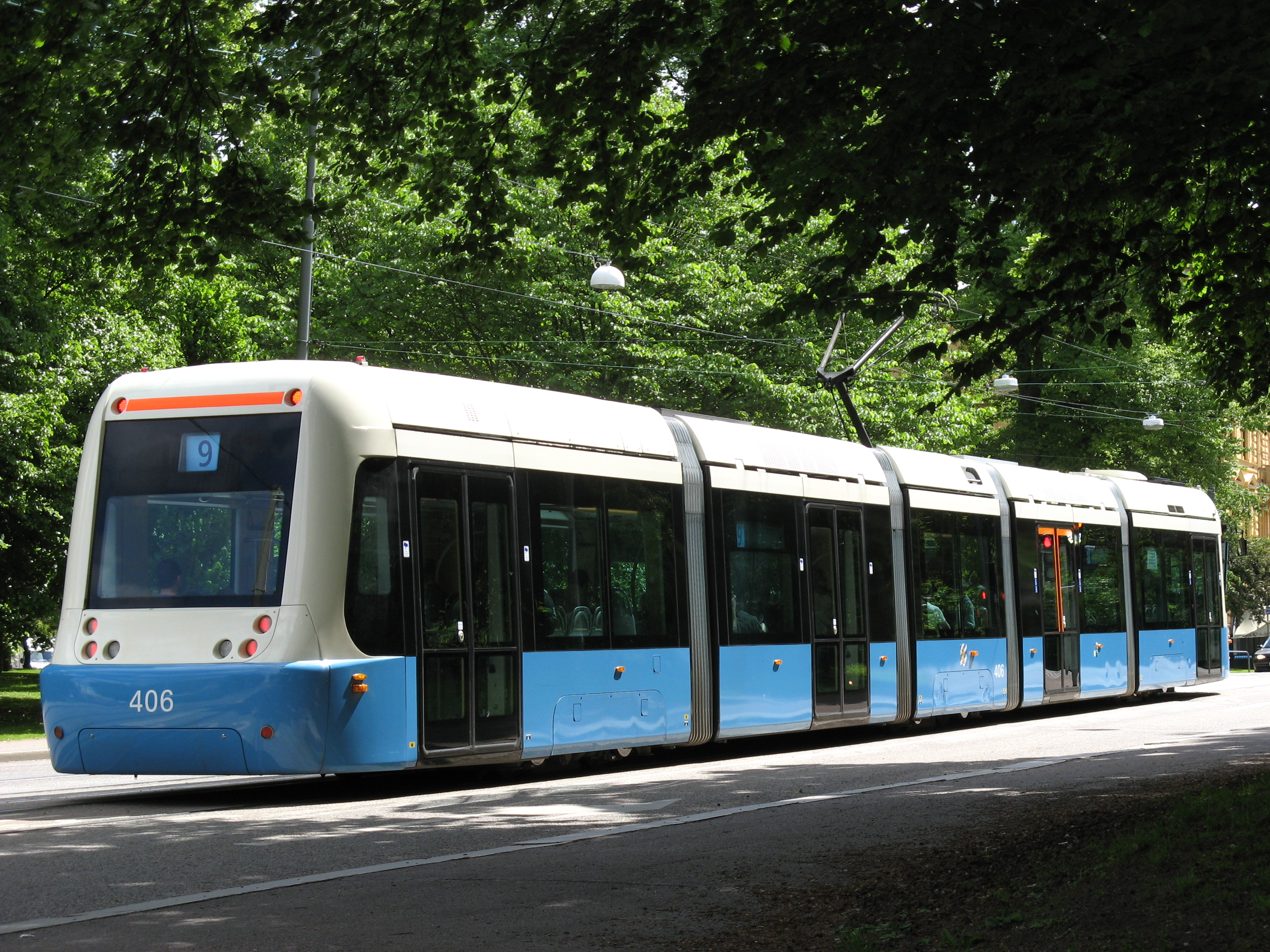 Tram in Gothenburg, no 406